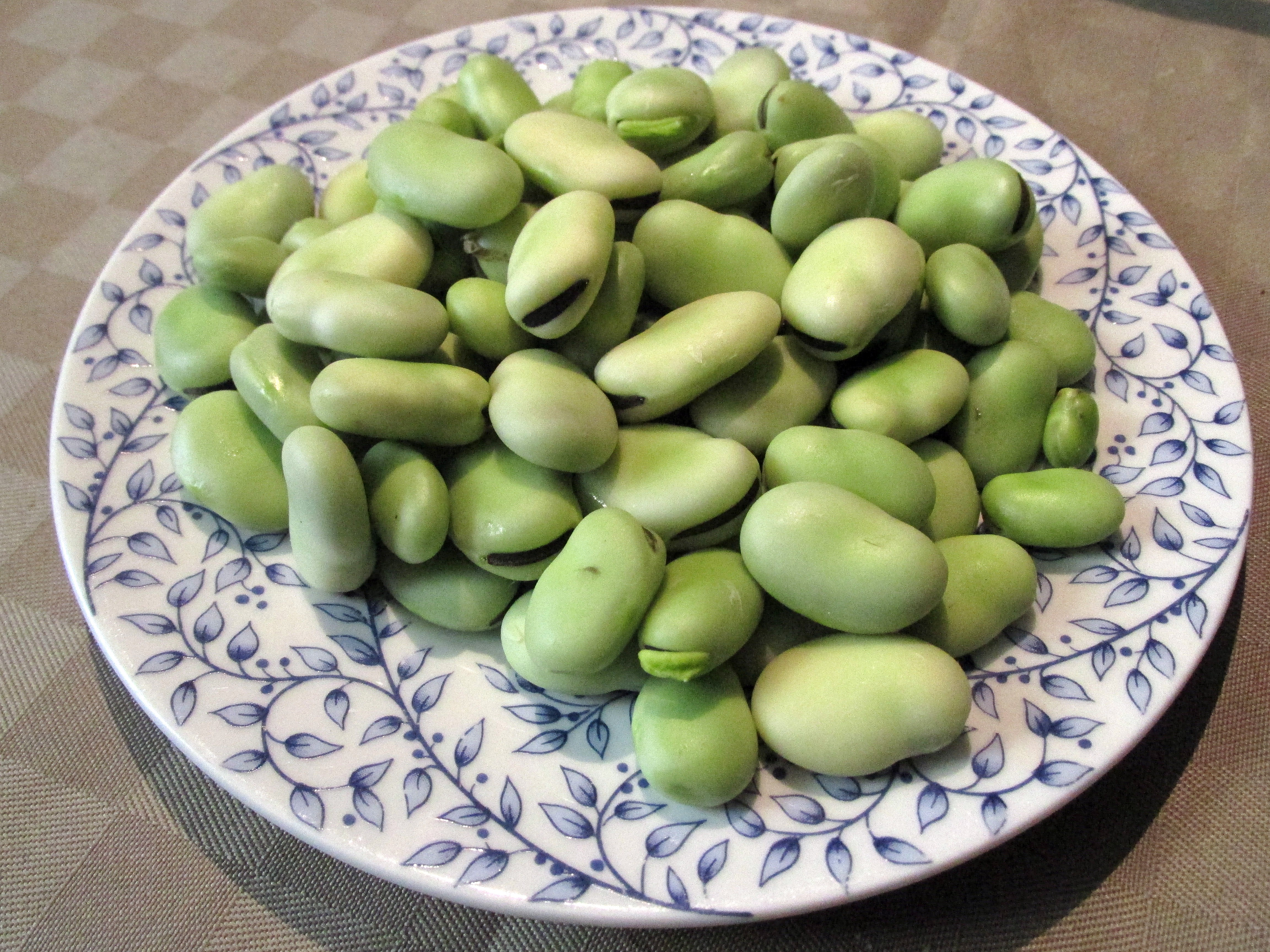 Vicia faba - fresh seeds